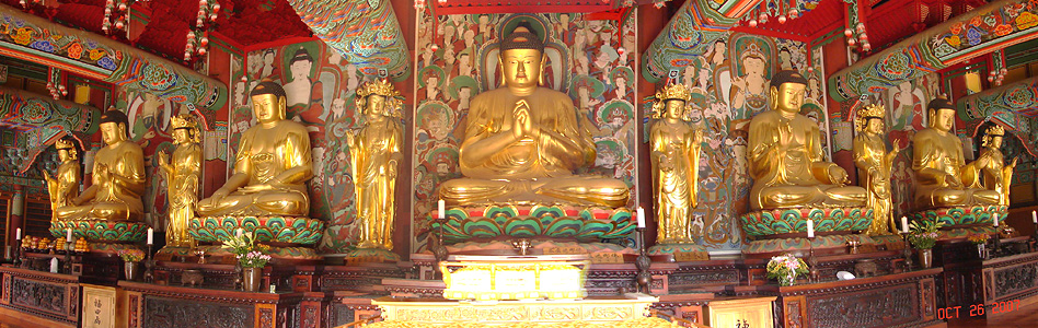 Inside the main hall at Geumsansa